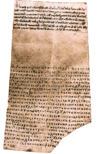 Kulin ban charter